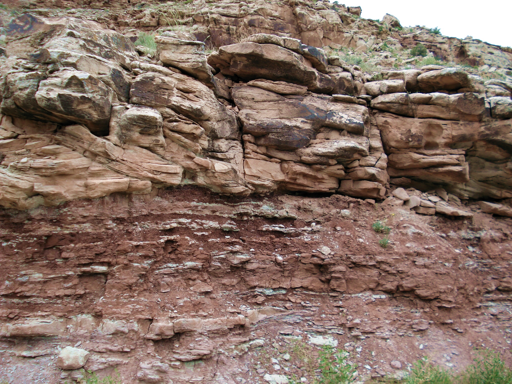 Tidwell (reddish mudstones and shales)and overlying Saltwash (sandstone) Members of the Morrison Formation on the Colorado Plateau. South of Cisco, Utah